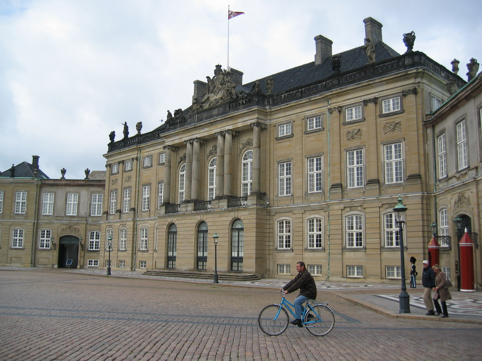 Christian VIII's Palace, one of the four Amalienborg mansions in Copenhagen, Denmark